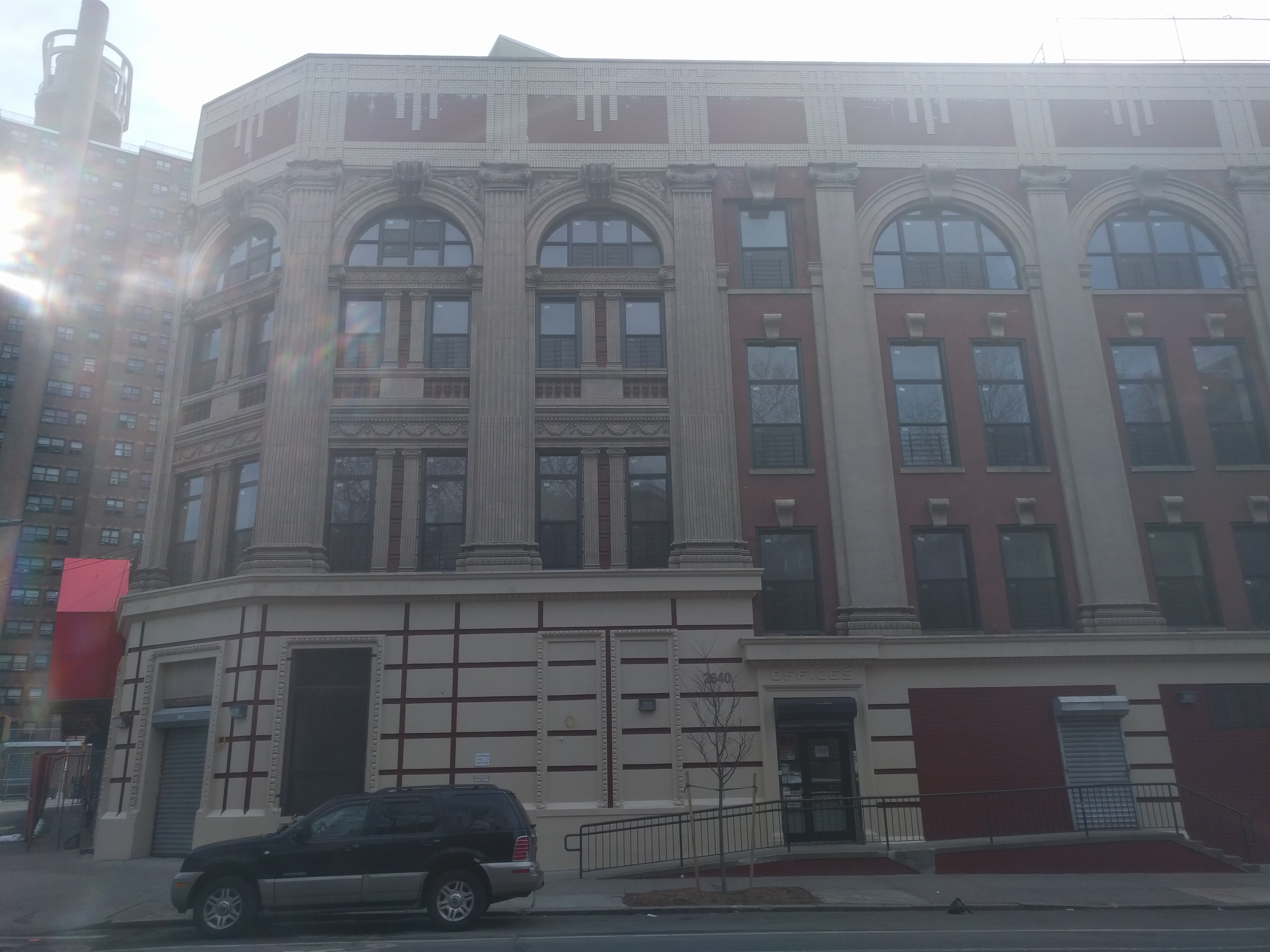 Looking east across Third Avenue at Metropolis Theatre